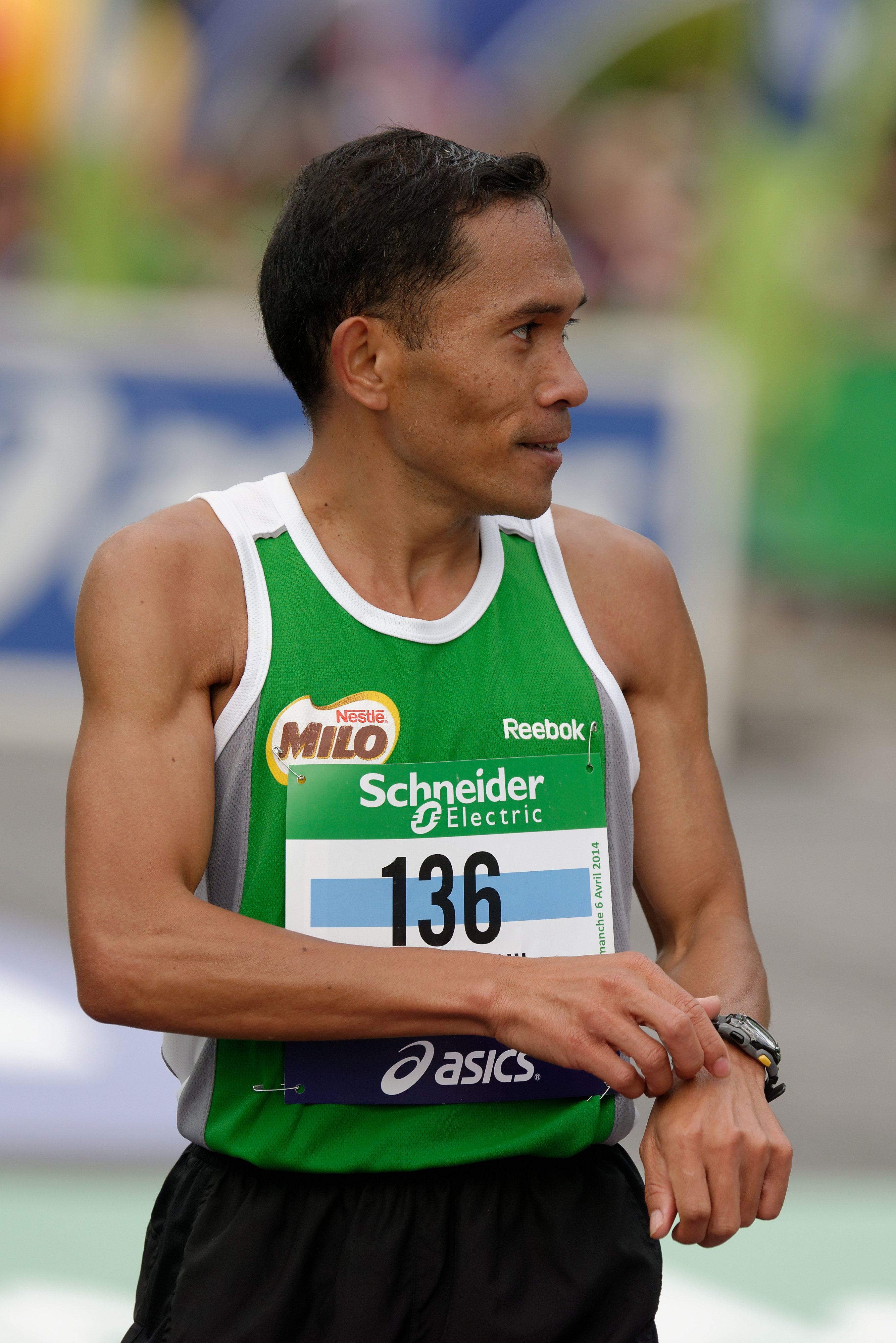 Philippines' Eduardo Buenavista crosses the finish line of the 2014 Paris Marathon in 02:33:20.